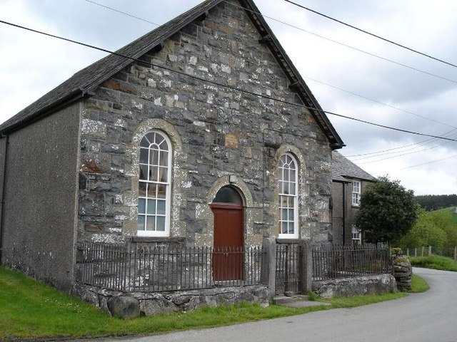 Pentre llyn Cymmer church. In the centre of this small hamlet sits a disused church